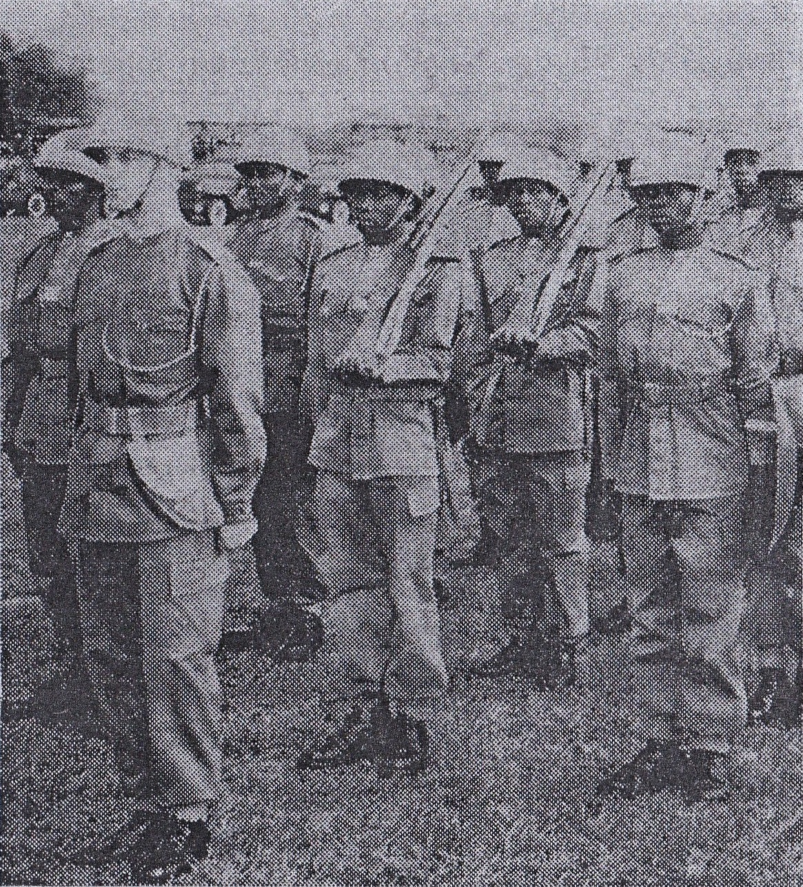 Unit of the newly created gendarmerie unit of the Force Publique, established in Léopoldville